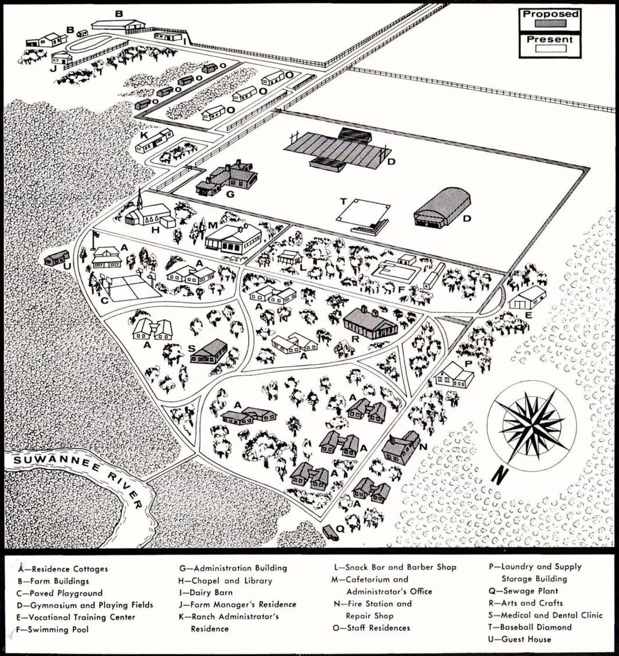 The sheriff Star